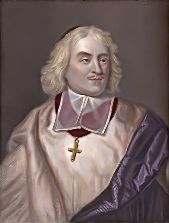 Jacques-Benigne Bossuet